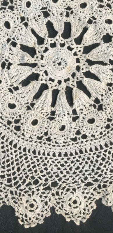 Mom sent some vintage linens to me after my great aunt's death. The work is by relatives in Sweden.